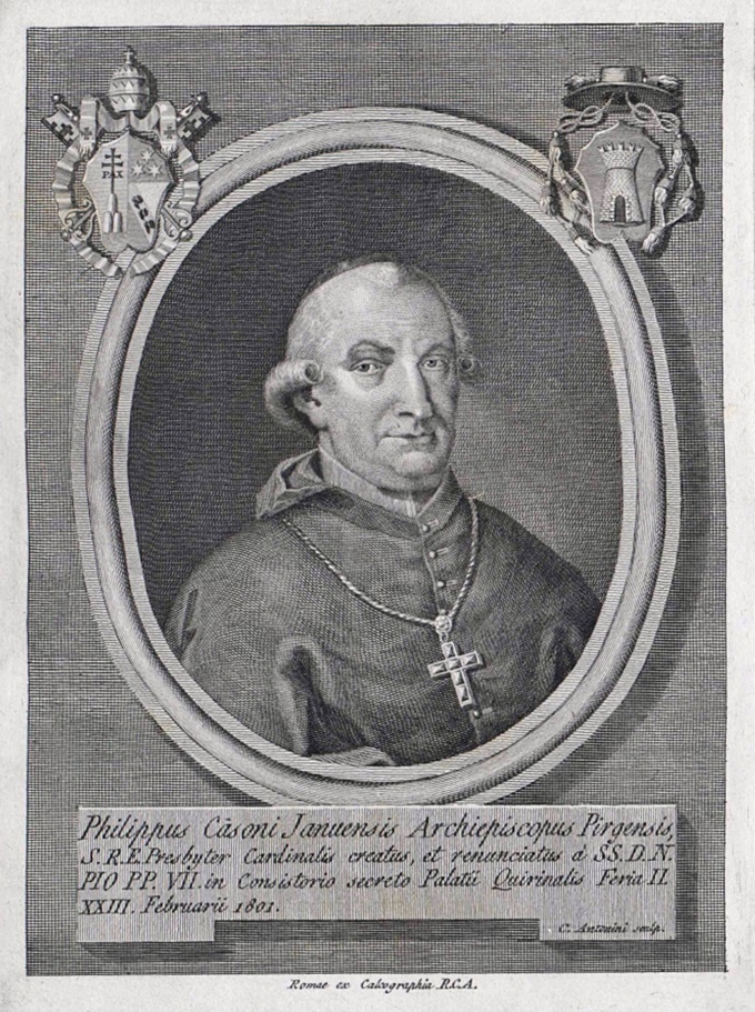 Kardinal Filippo Casoni (1733-1811)